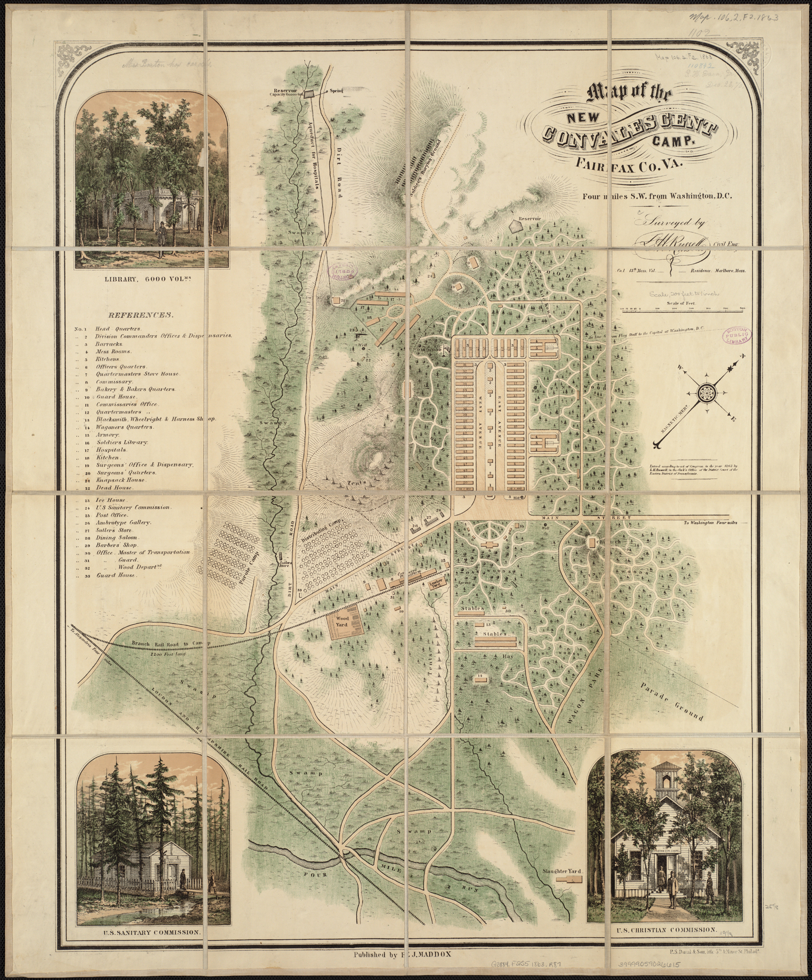 Zoom into this map at . Author: Russell, L. H. Publisher: Maddox, E. J. Date: 1863 Location: Fairfax (Va.), Fairfax Co. (Va.) Dimension: 66x51cm Scale: [ca.1:2,400] Call Number: G3884.F2S5 1863 .R87